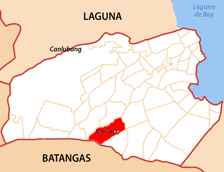 kay-anlog map Tagalog: mapa ng kay-anlog